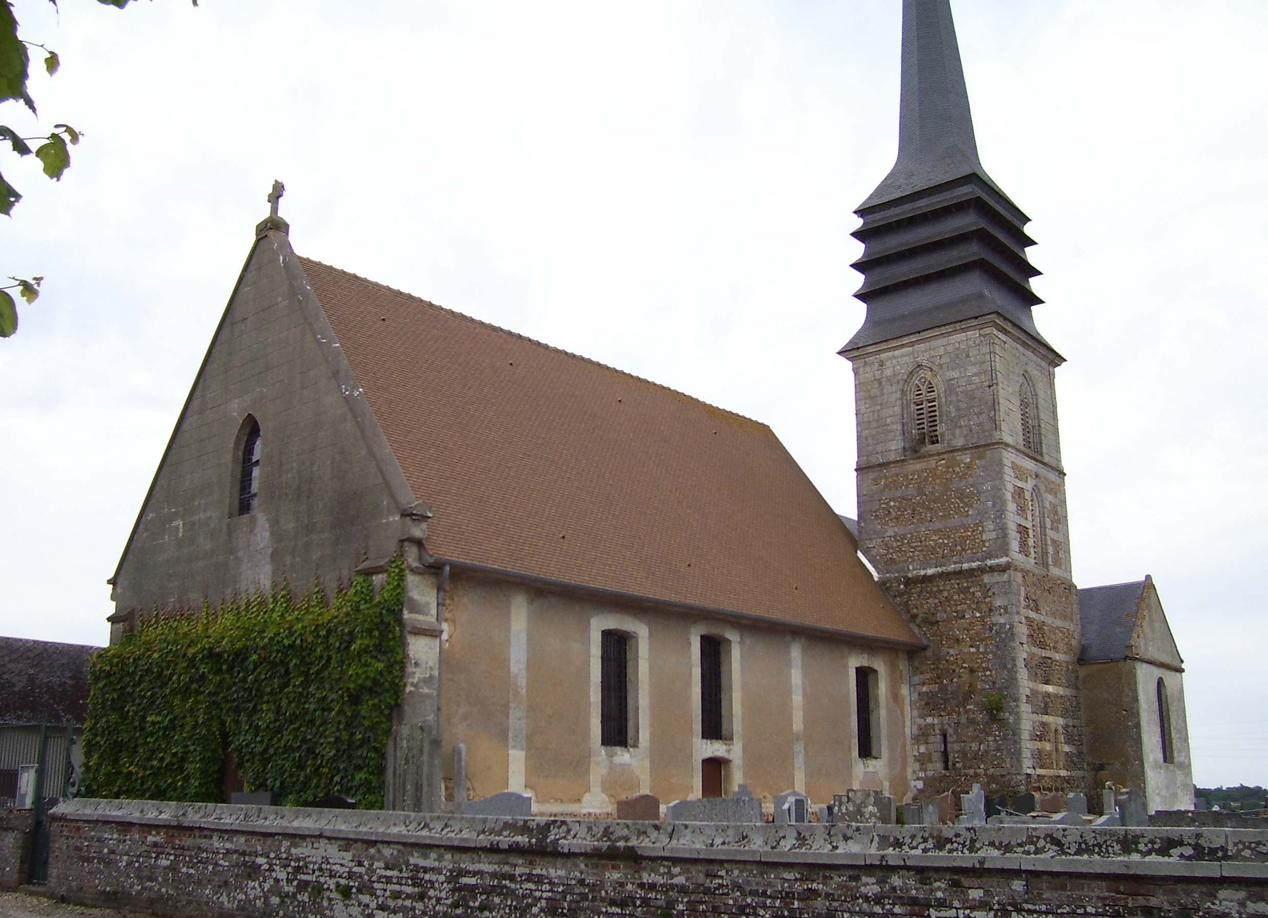 The church Saint-Martin in Courbépine (Eure, France).